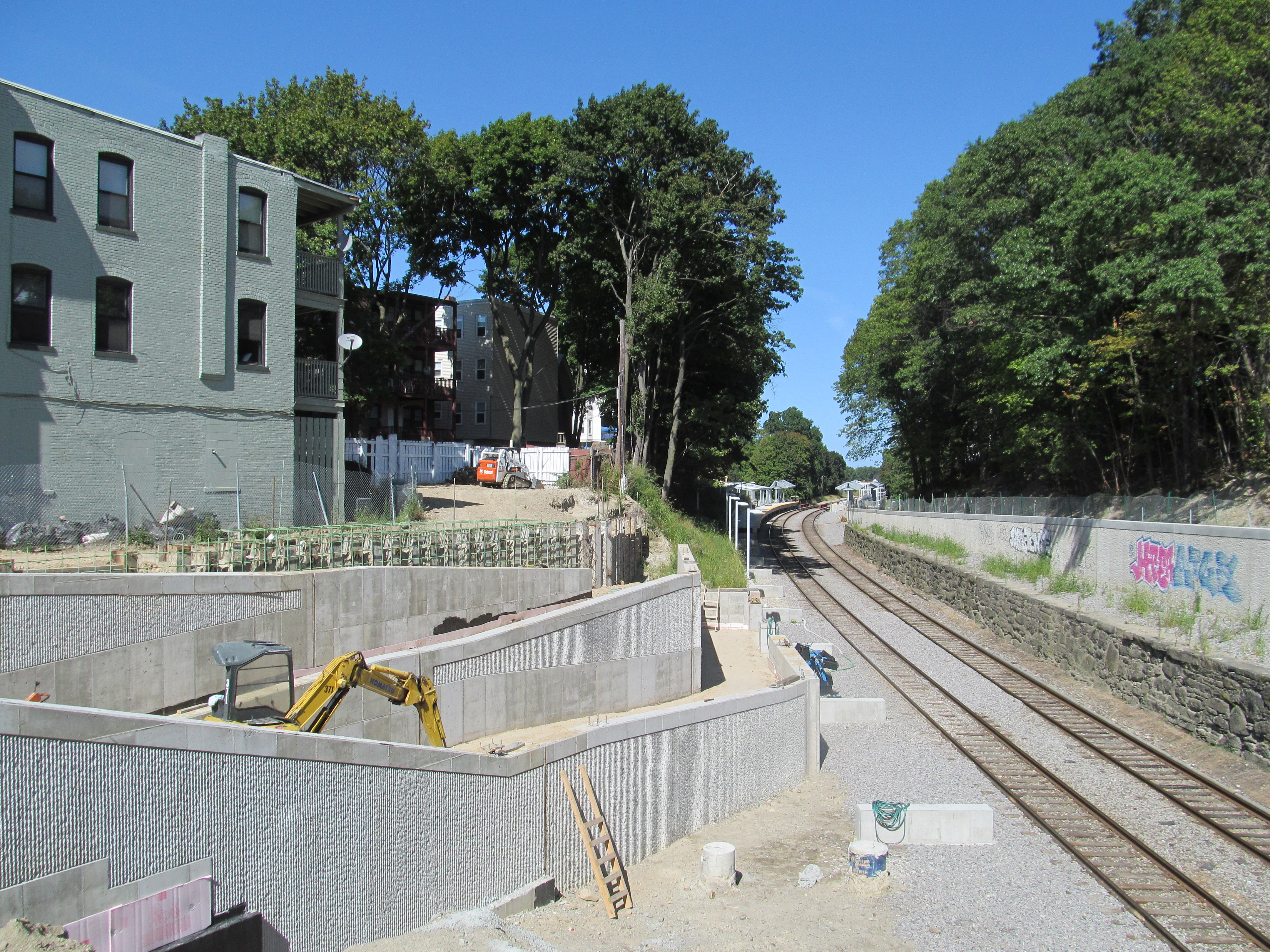 The ramp from Washington Street to the outbound platform at Four Corners/Geneva under construction in September 2012. Difficulties with this ramp were a major cause of construction delays.